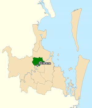 This image incorporates data that is: © Commonwealth of Australia (Australian Electoral Commission) 2009 Division of Brisbane 2010